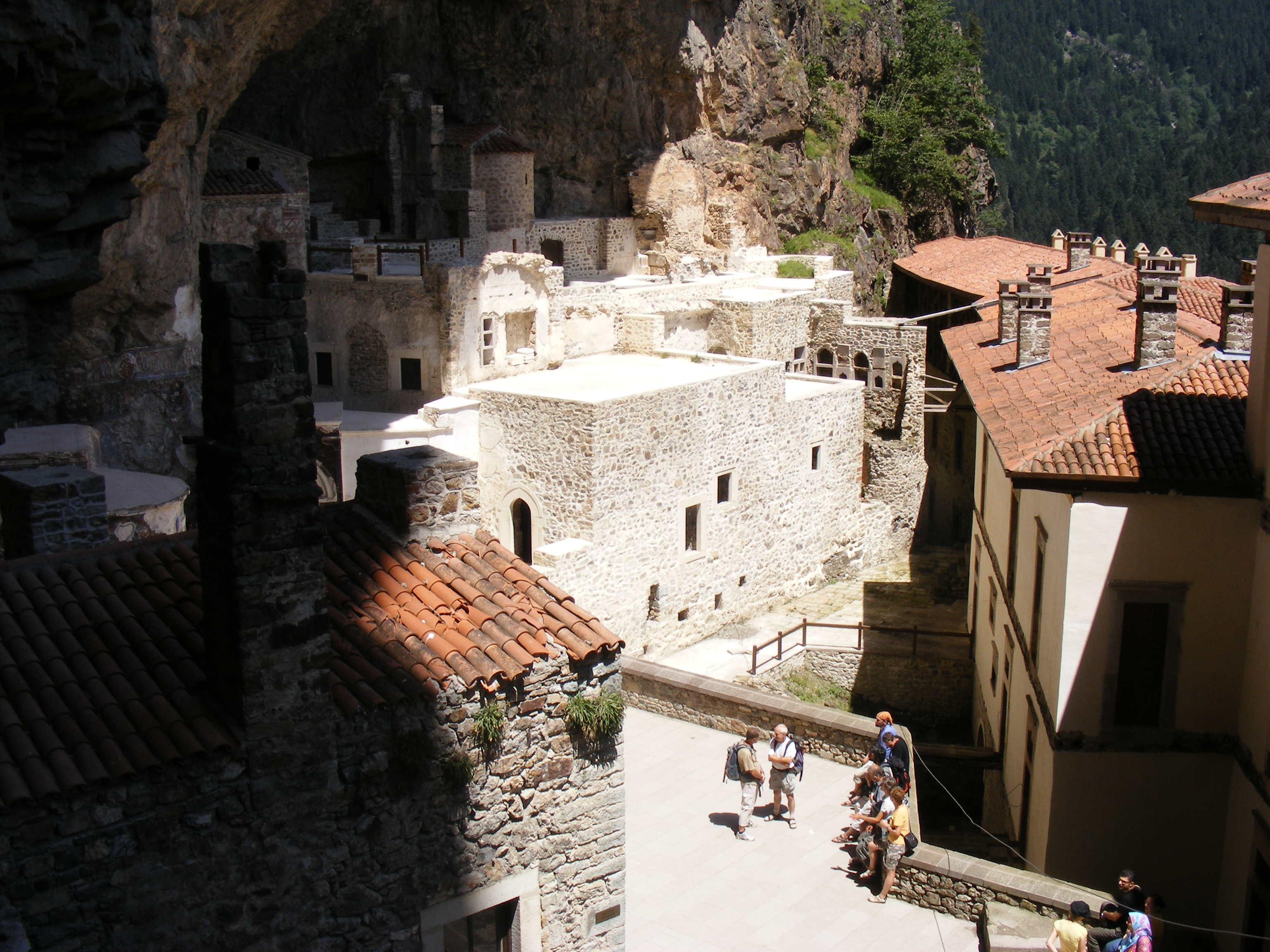 View of Sumela monastery